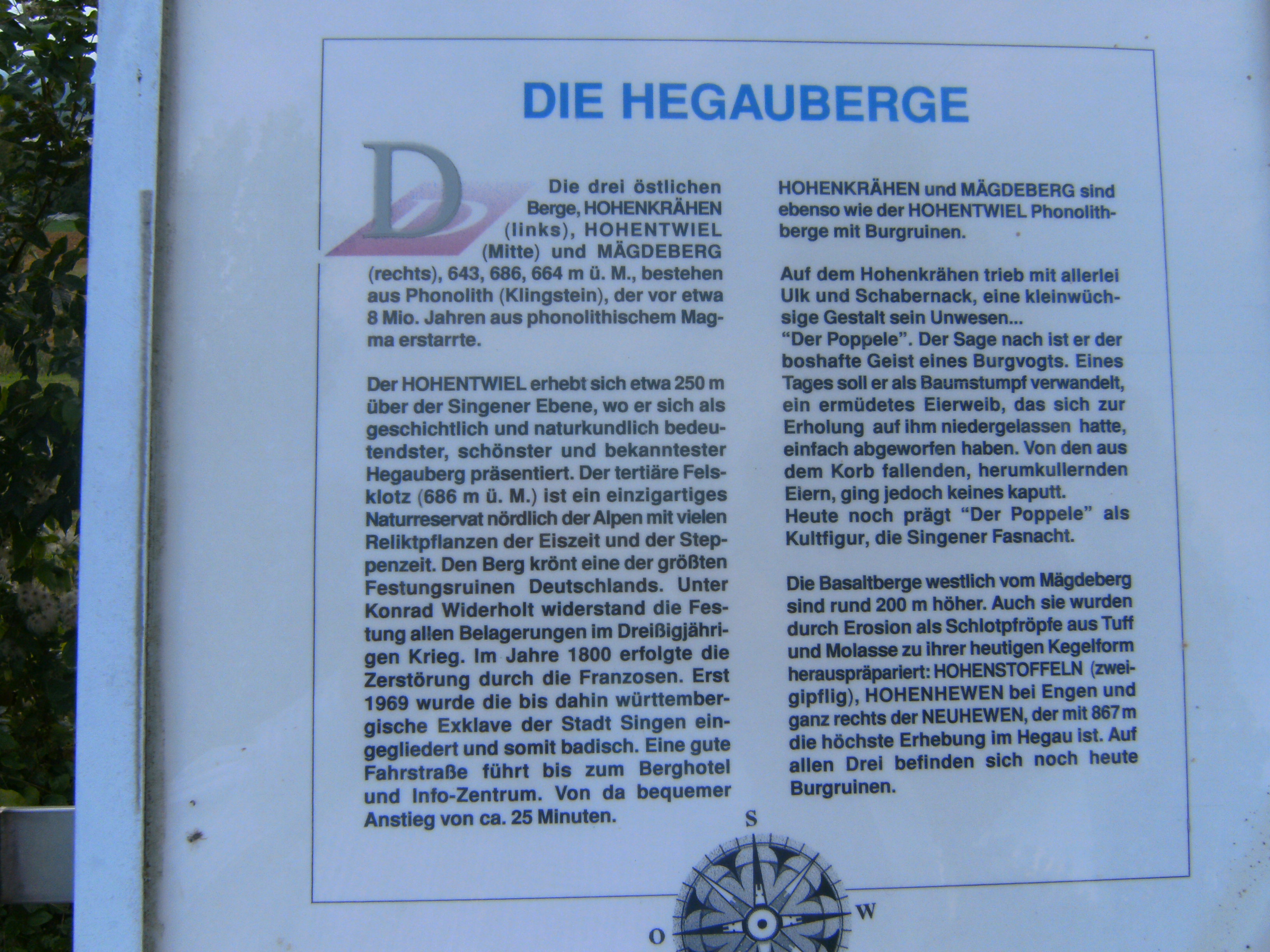 Bundesautobahn 81, Germany, Raststätte im Hegau West: Information board Hegau volcanoes.